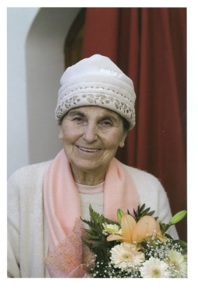 frontal photo of Margherita Pavesi Mazzoni wearing hat